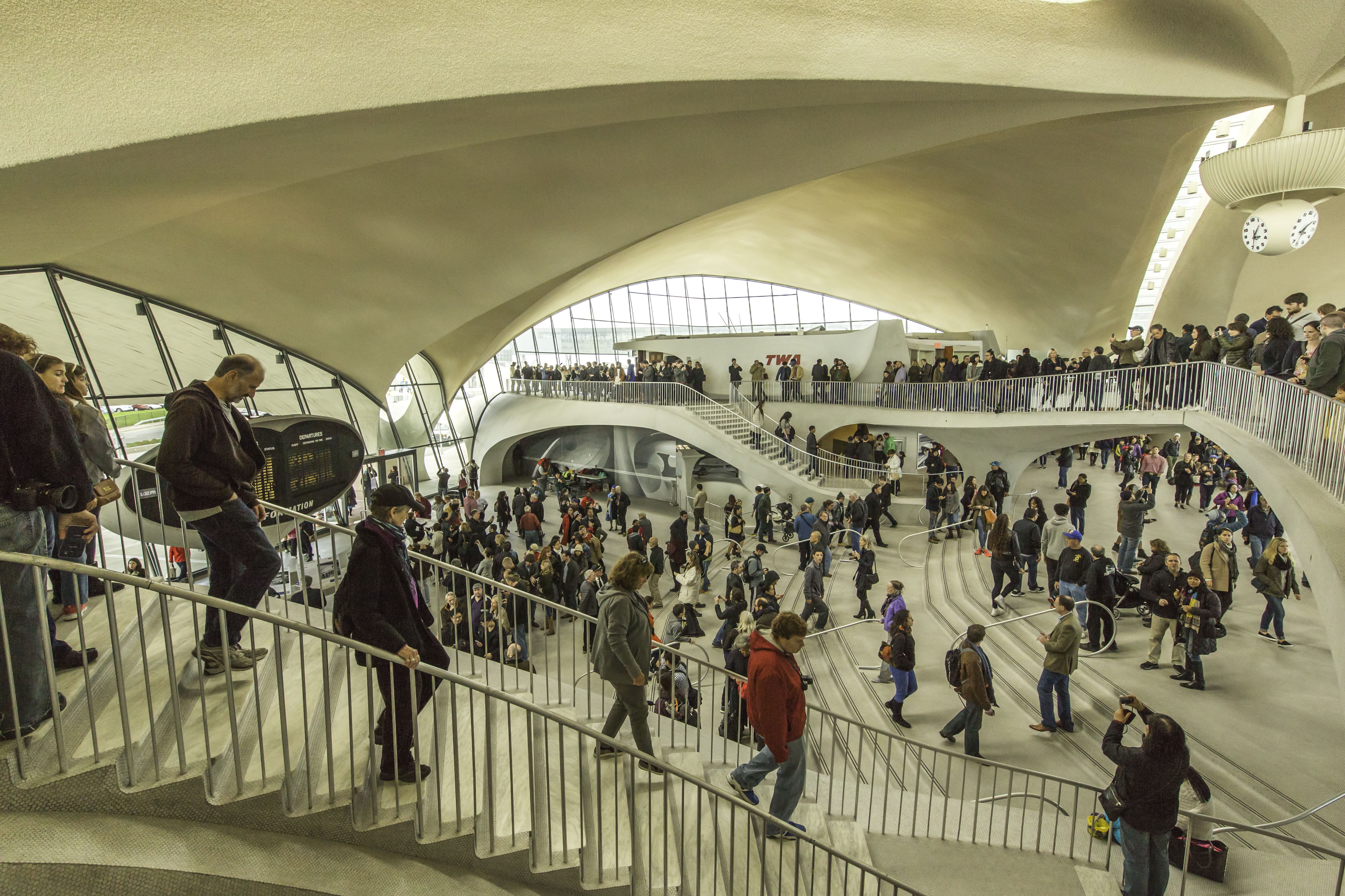 A wide-angle photograph of visitors at the TWA Flight Center at JFK airport.Site: TWA Flight Center